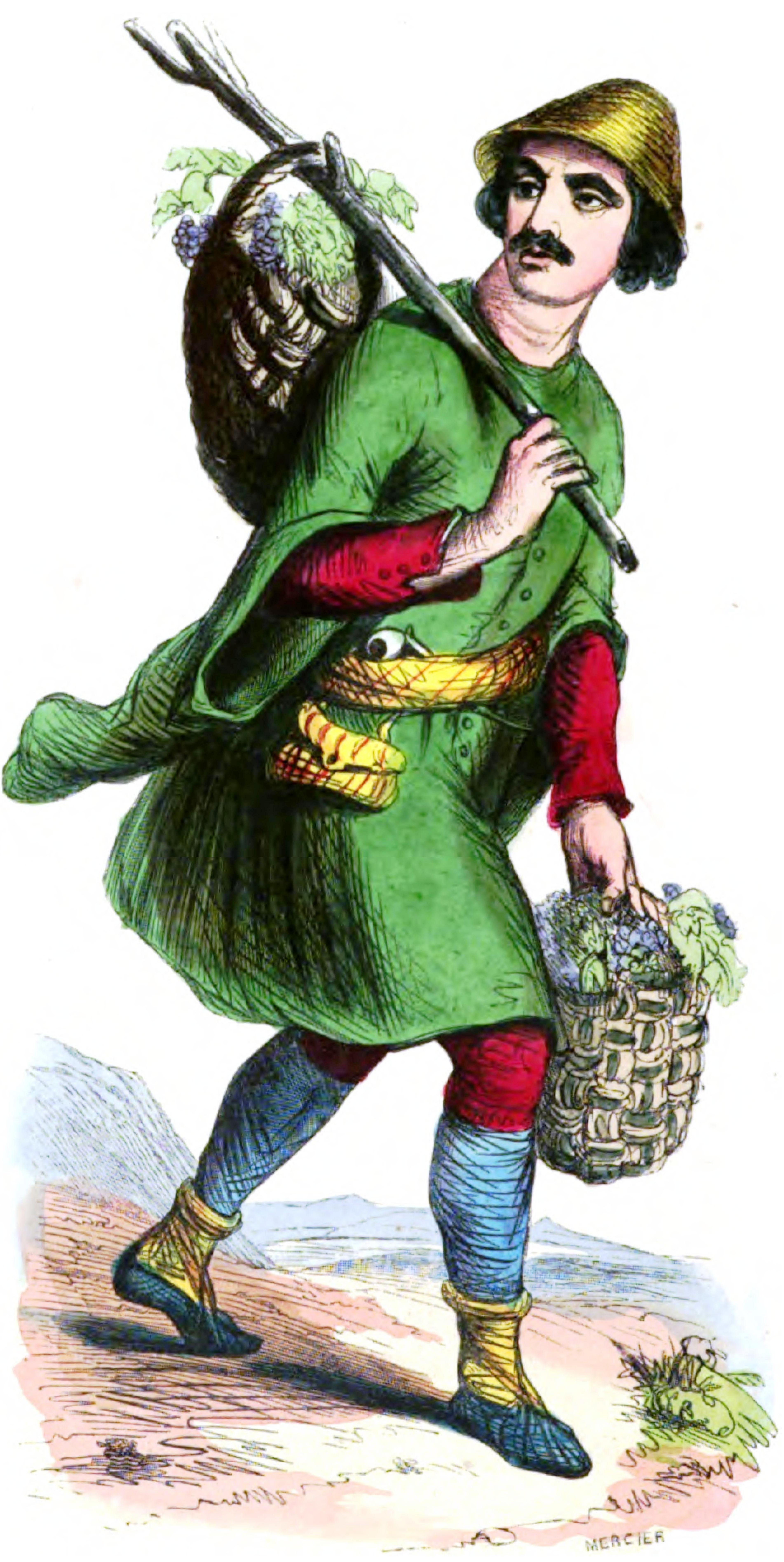 Mercier. Mingrelien (Asie)